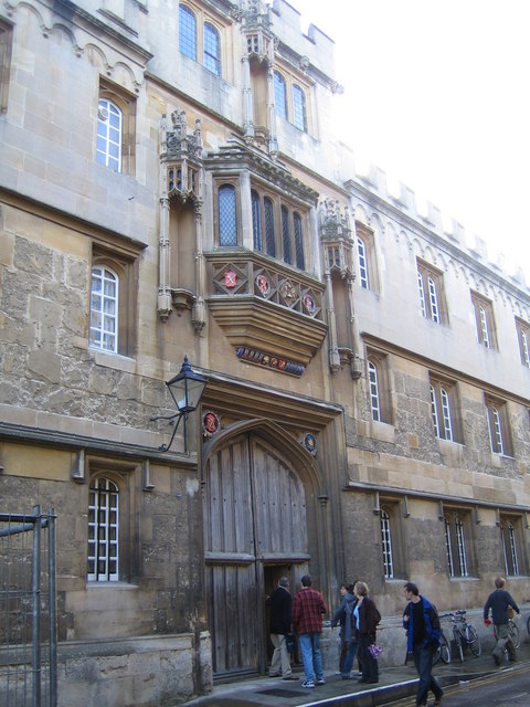 Oxford: Corpus Christi College